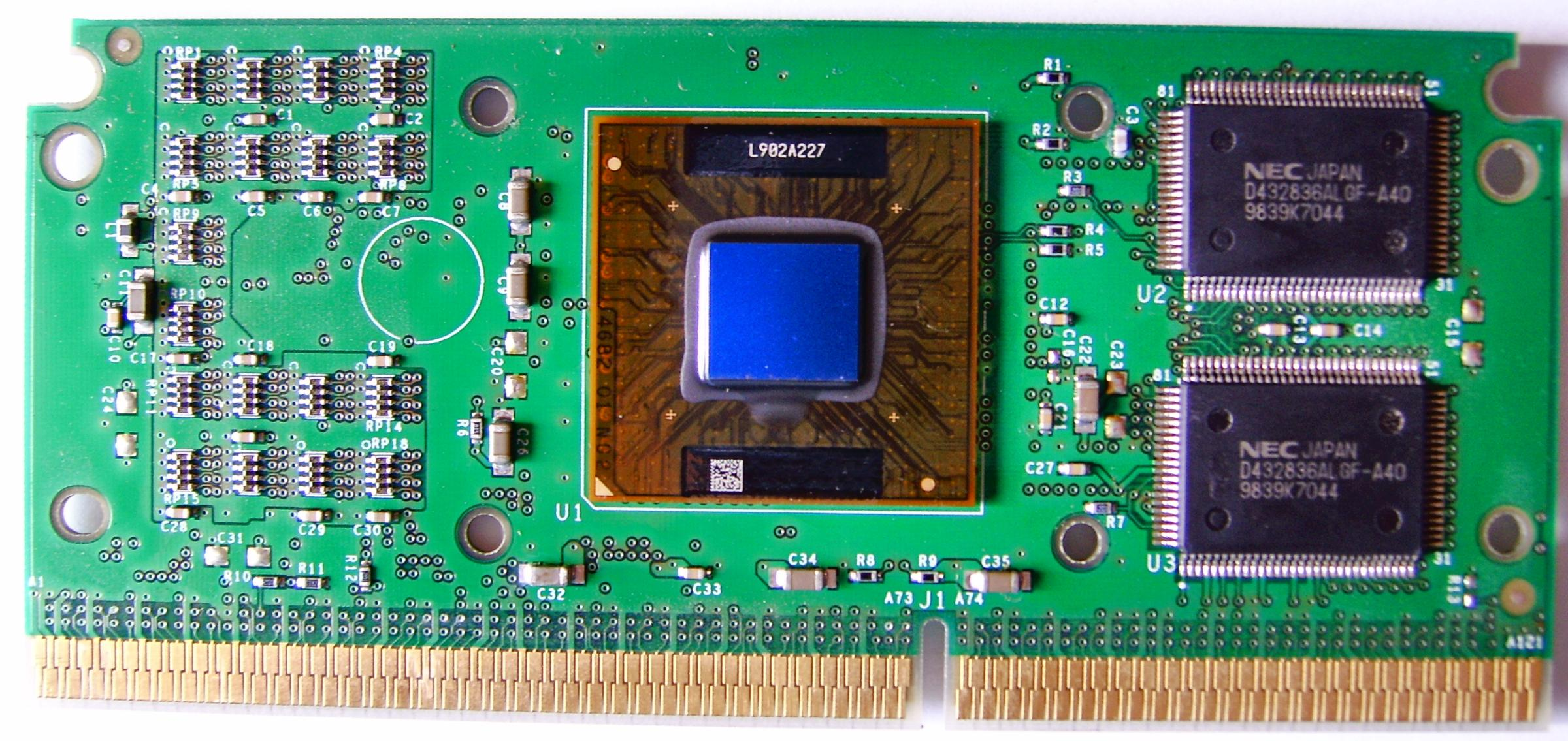 Pentium 2 (Deschutes) opened, front view CPU and L2 cache